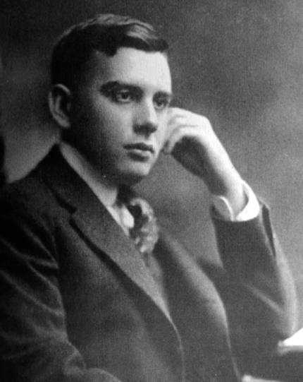 Florencio Harmodio Arosemena(1872-1945), president of Panama (1928-1931)